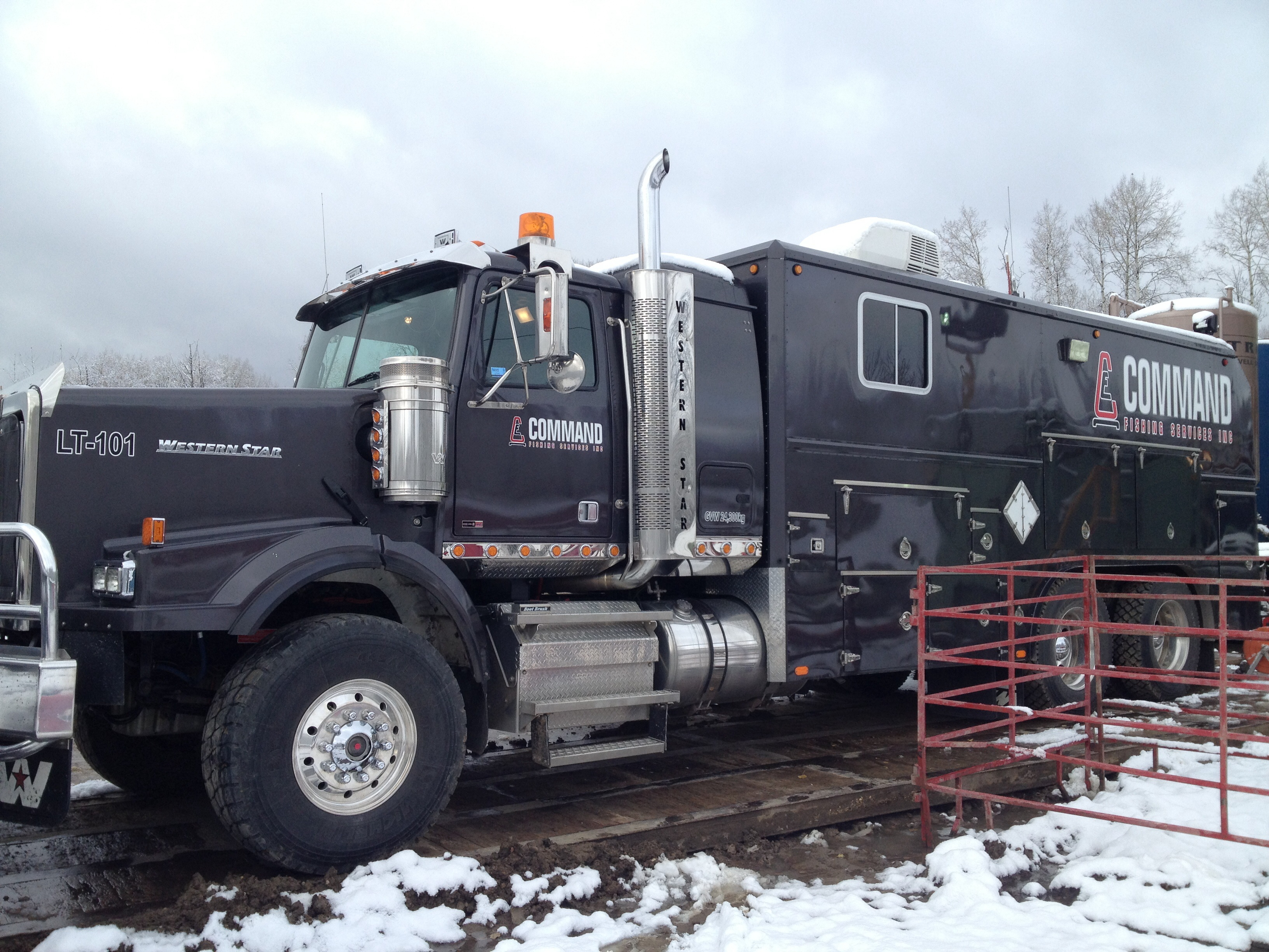 Command Fishing Services; Pipe Recovery Division.